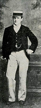 British footballer Charles Douglas Moffatt, a football pioneer in Argentina. In the picture, he is with the medal won with St. Andrew's in 1891.